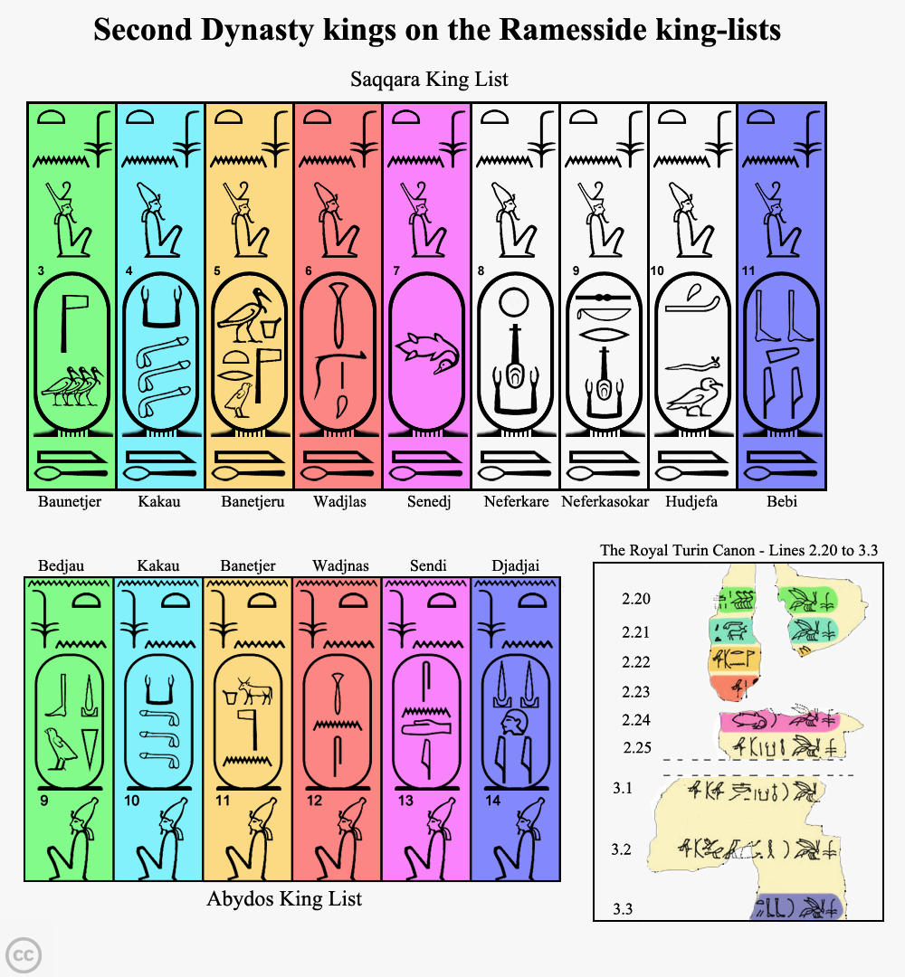 Names of rulers from the Second Dynasty on 19th Dynasty king lists